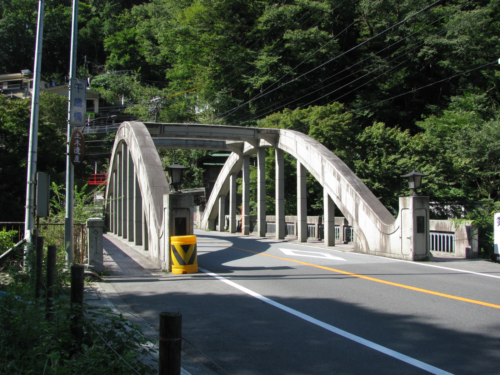 The Chitose-bashi is concrete bridge built in 1933. This place is Hakone, Kanagawa, Japan.